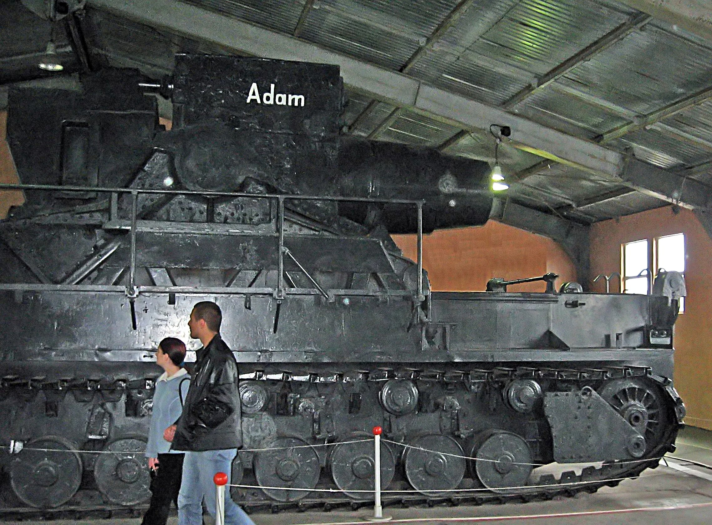 German mortars Mörser Karl Ziu, displayed in Kubinka Tank Museum. Photo taken on September 10, 2006. Edited on 08.10.2007